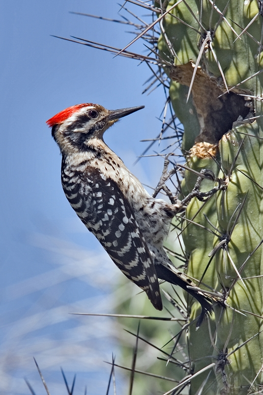 Ladder-Backed Woodpecker (Picoides scalaris), Male, Desert Botanical Gardens, Phoenix, Arizona